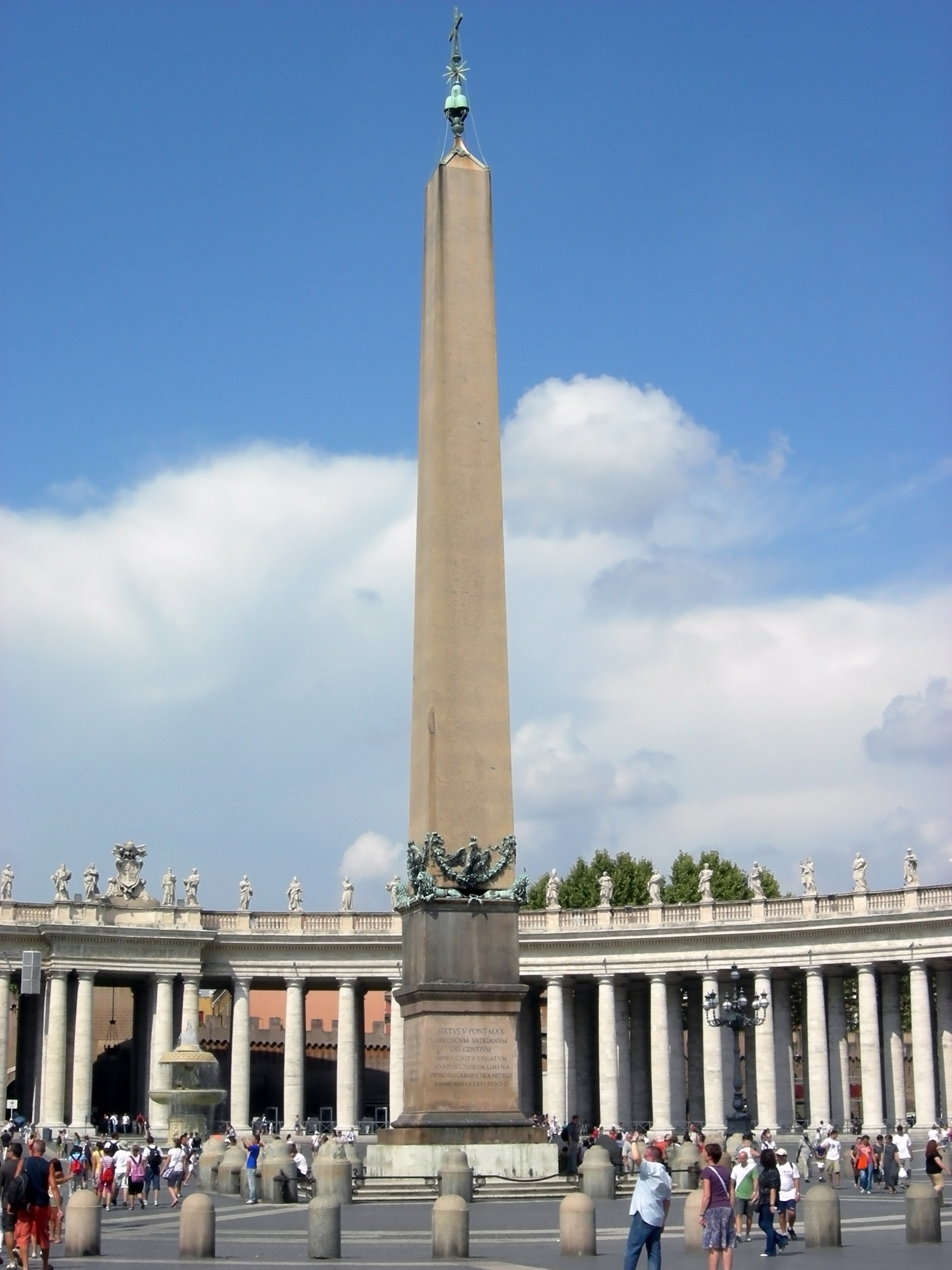 Vatican Obelisk